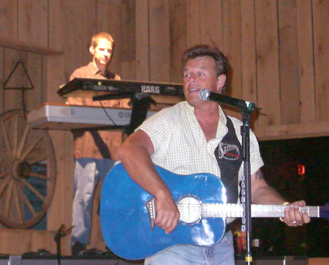 Sammy Kershaw onstage, with pianist Steve Farmer